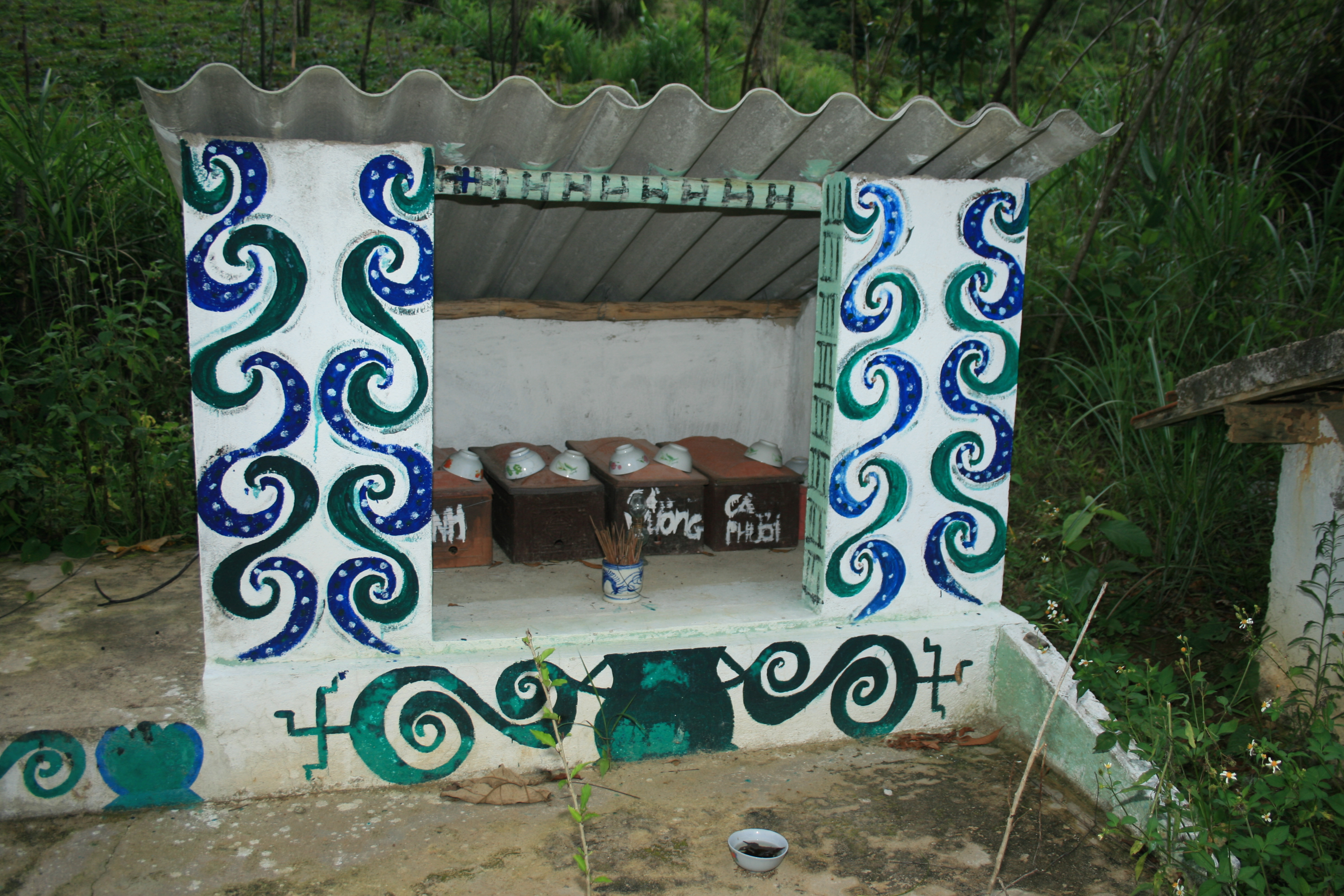 Tombs of Ta Oi people, A Luoi district, Thua Thien-Hue Province, Vietnam